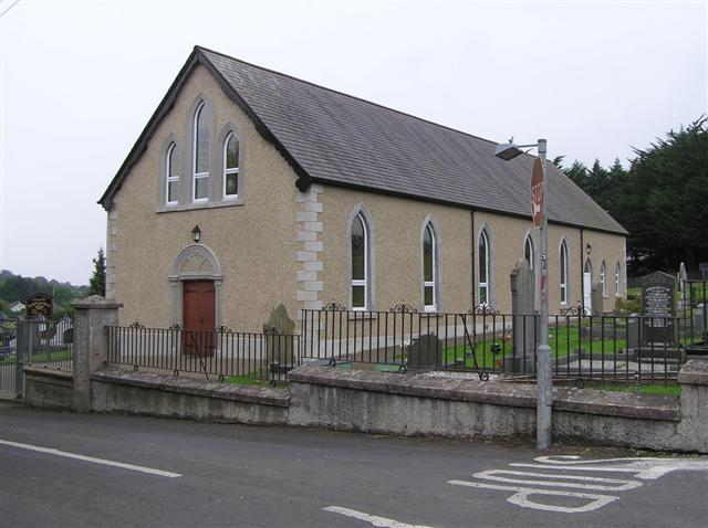 Culnady Presbyterian Church It is in the centre of the village